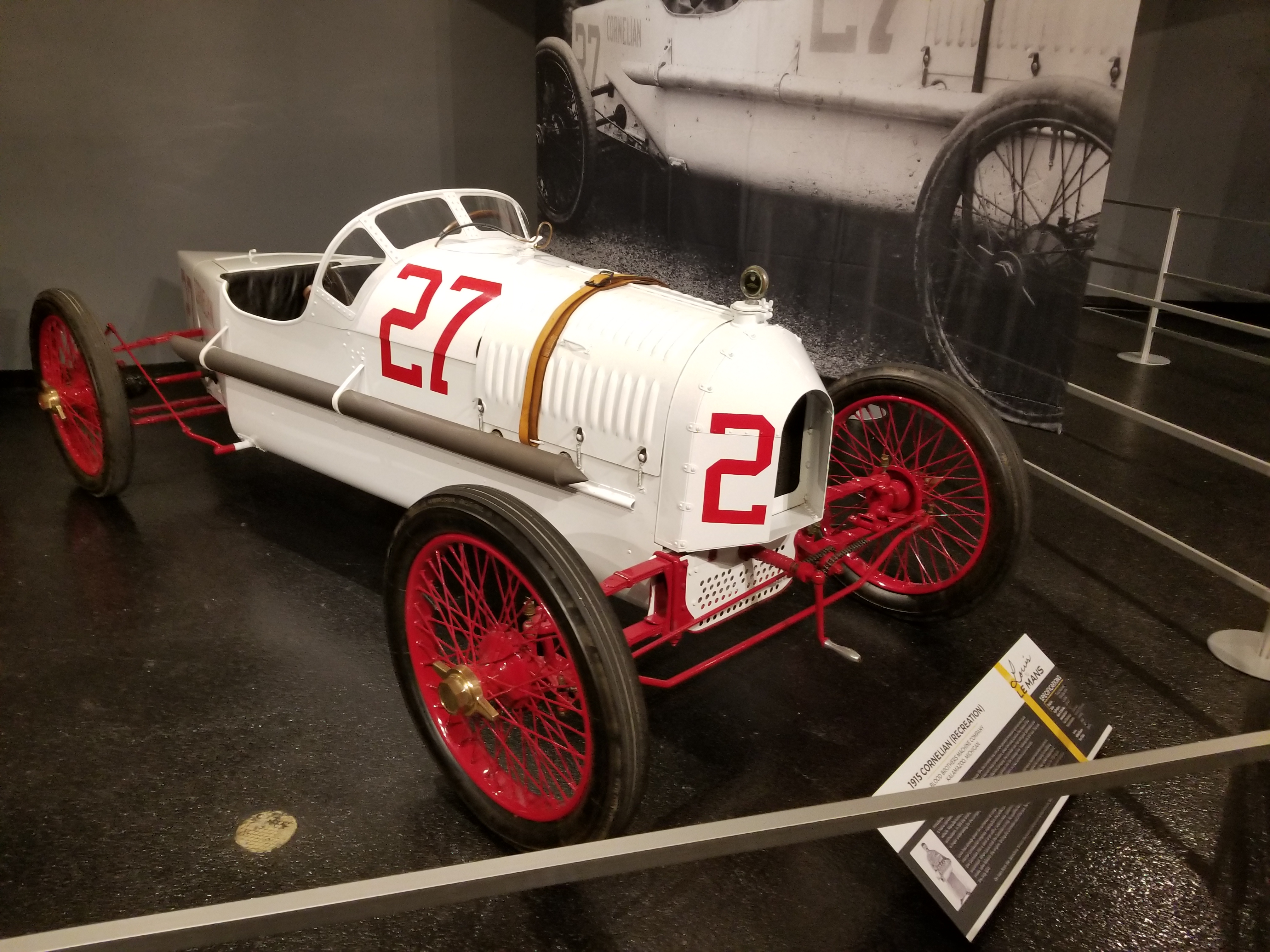 Replica of a 1915 Cornelian at the National Corvette Museum in Bowling Green, KY.